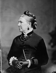 Jane Sym Mackenzie (March 22, 1825 in Perthshire, Scotland - March 30, 1893) was the second wife of Alexander Mackenzie, the second Prime Minister of Canada.